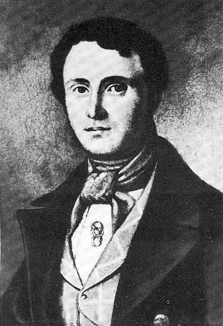 Nikolay Gulak's photo